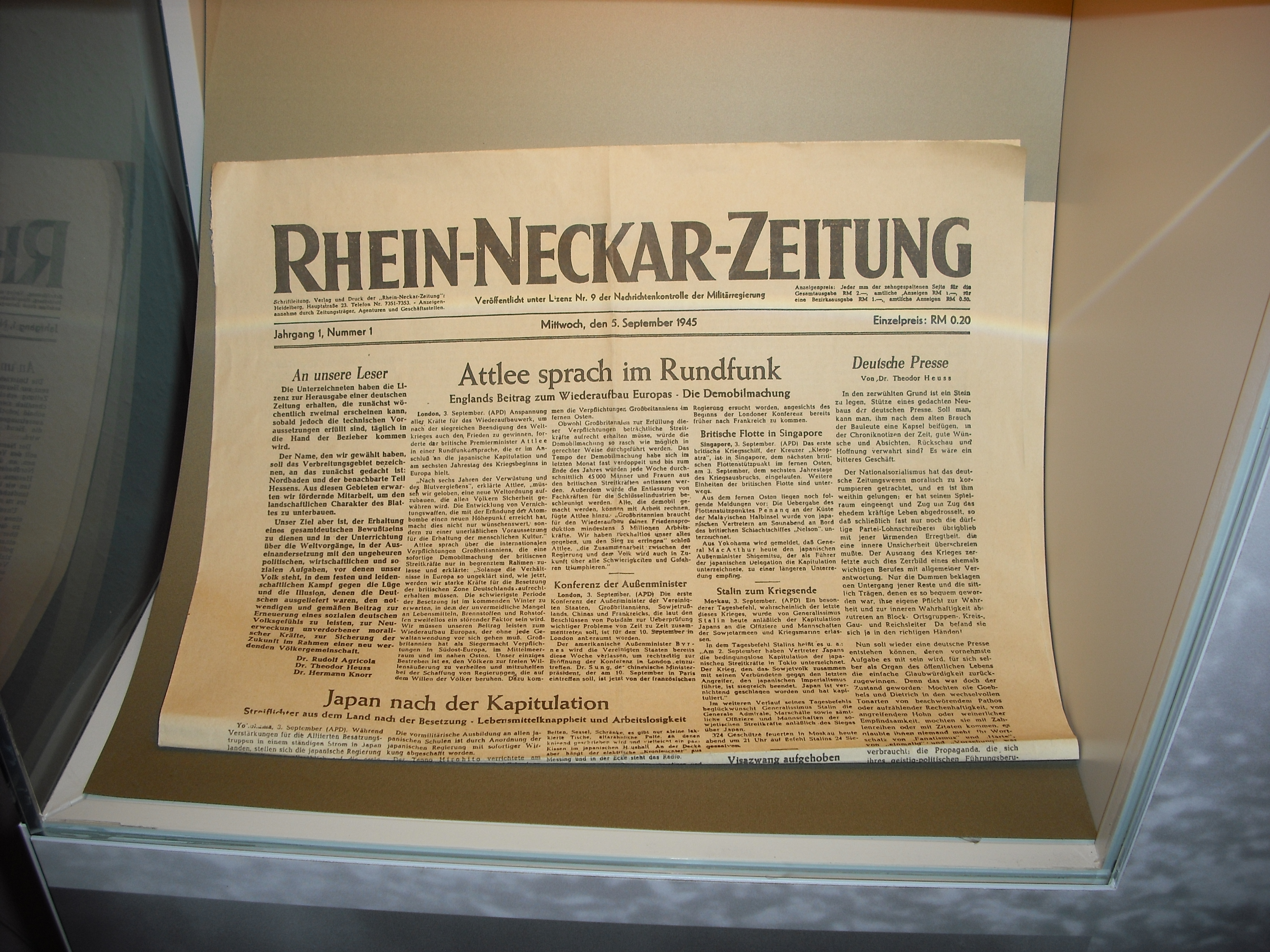 First issue of the newspaper Rhein-Neckar-Zeitung (RNZ)